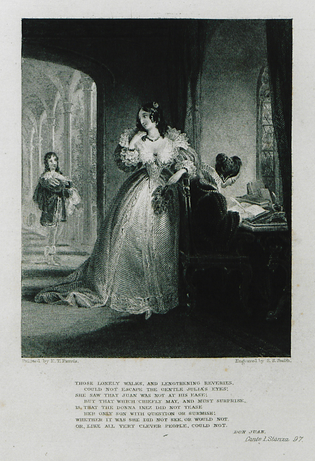 Illustration for the poem of Lord Byron "Don Juan" - Byron George Gordon Lord - 1849